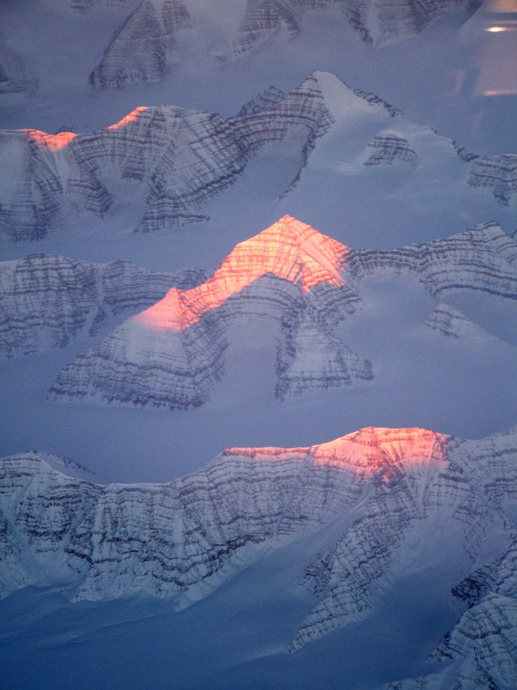 (Taken in November 2006 from the window of a Boeing 747 on a transatlantic flight; exact location uncertain.)